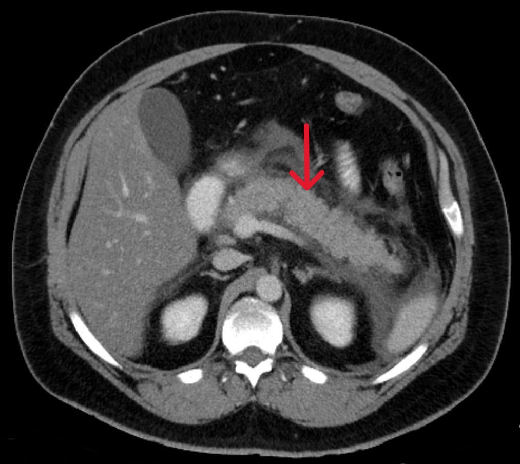 Computed tomography of acute, exudative pancreatitis. It is easy to see the fluid paths around the pancreas. A diminished contrast of the pancreas as an indication of necrosis is not found.